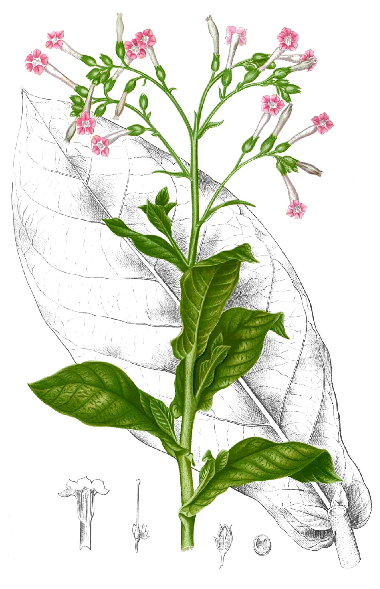 Plate from book